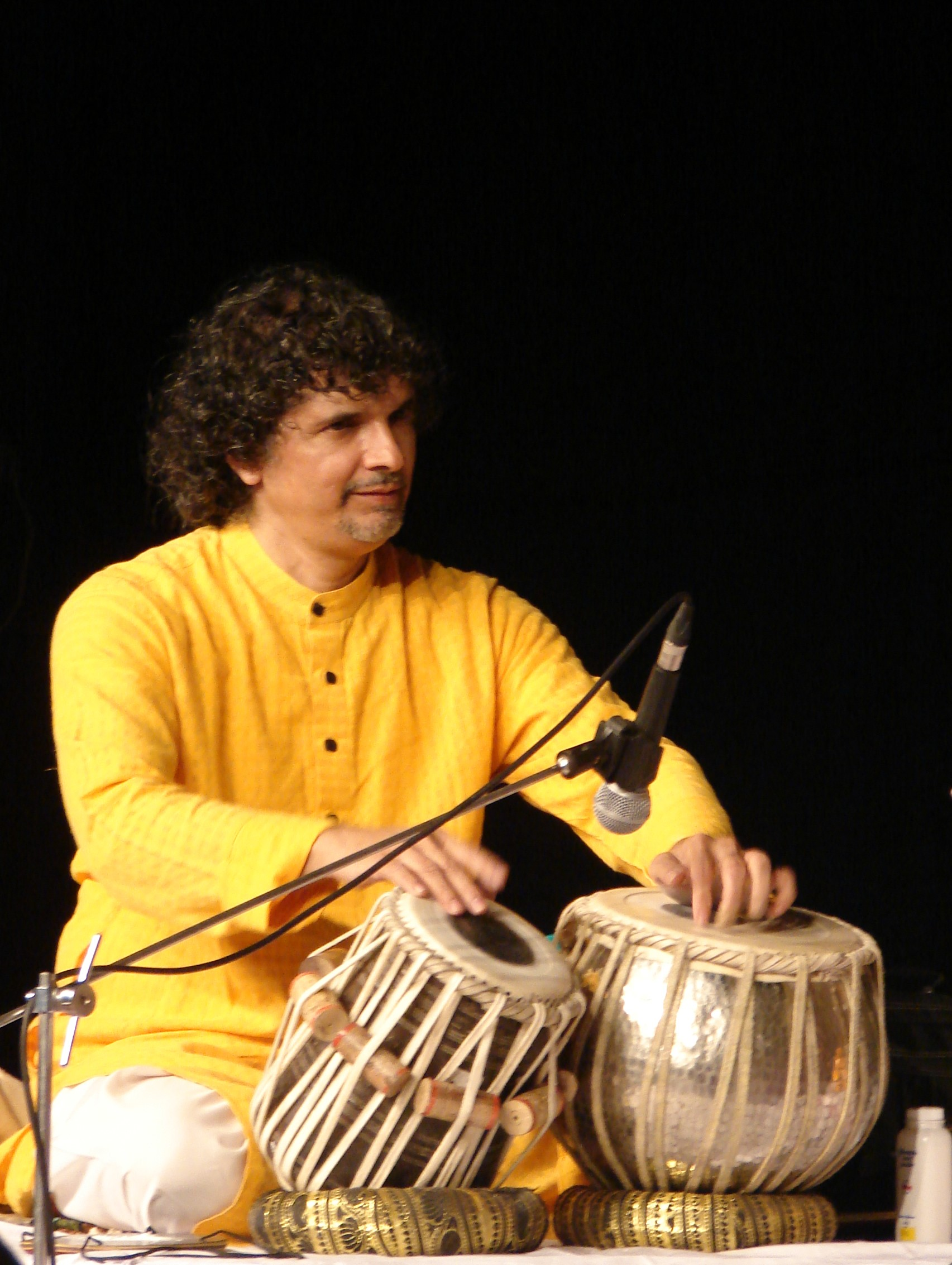 Ramdas Palsule in Sawai Gandharv Bhimsen Festival 2015